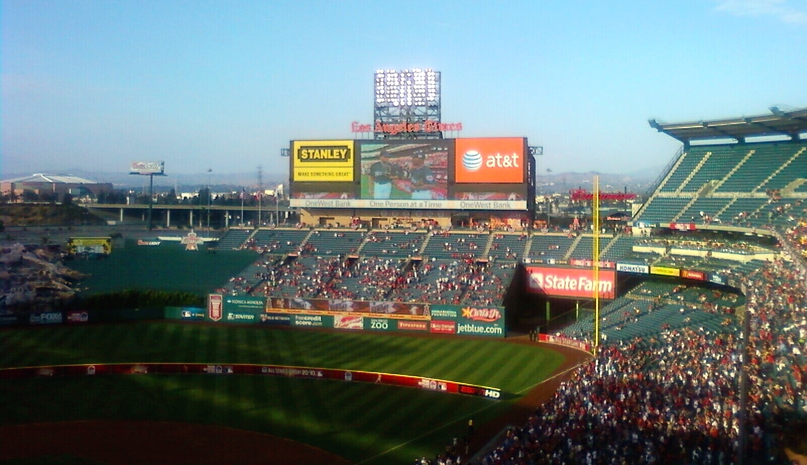 Pre-game warmups prior to the Taco Bell All-Star Legends and Celebrity Softball Game during the 2010 Major League Baseball All-Star Game festivities at Angel Stadium of Anaheim. This photograph was taken with a Samsung Reclaim SPH-m560 mobile phone camera and edited (color balance, brightness, contrast, saturation) using ArcSoft PhotoStudio 5.5